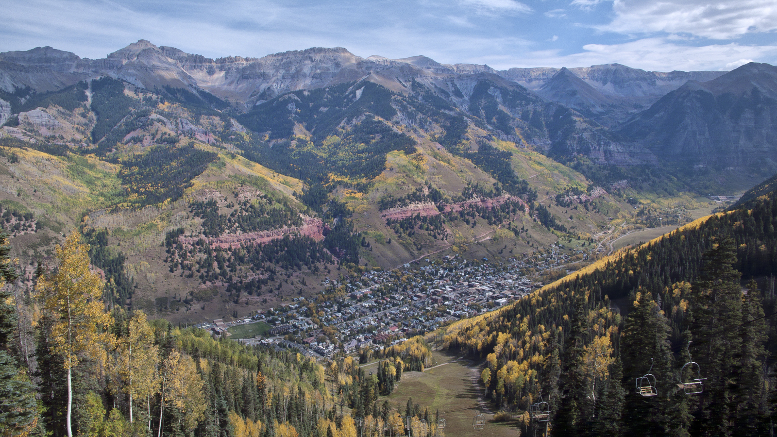 Telluride from the ski hill